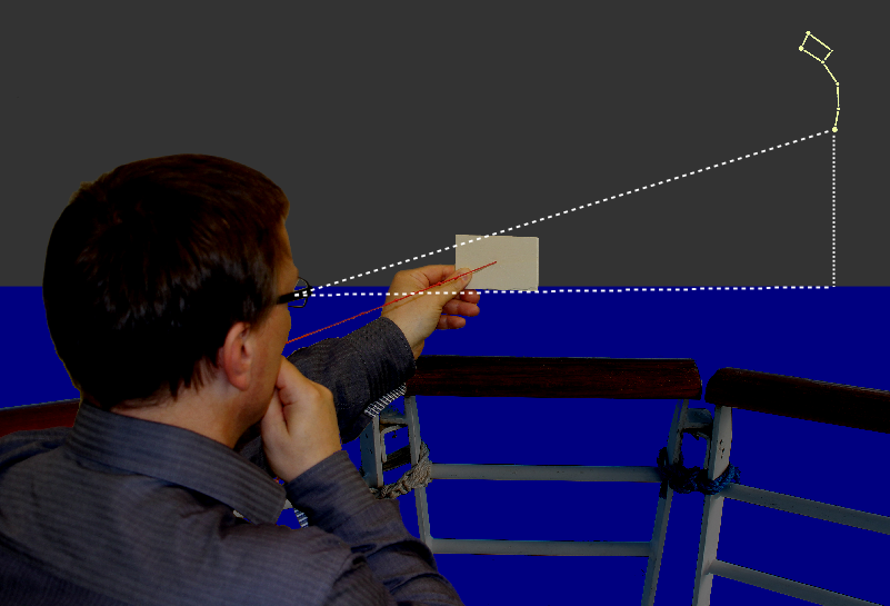 Usage of the Kamal when aiming at the North Star to determine the own latitude.